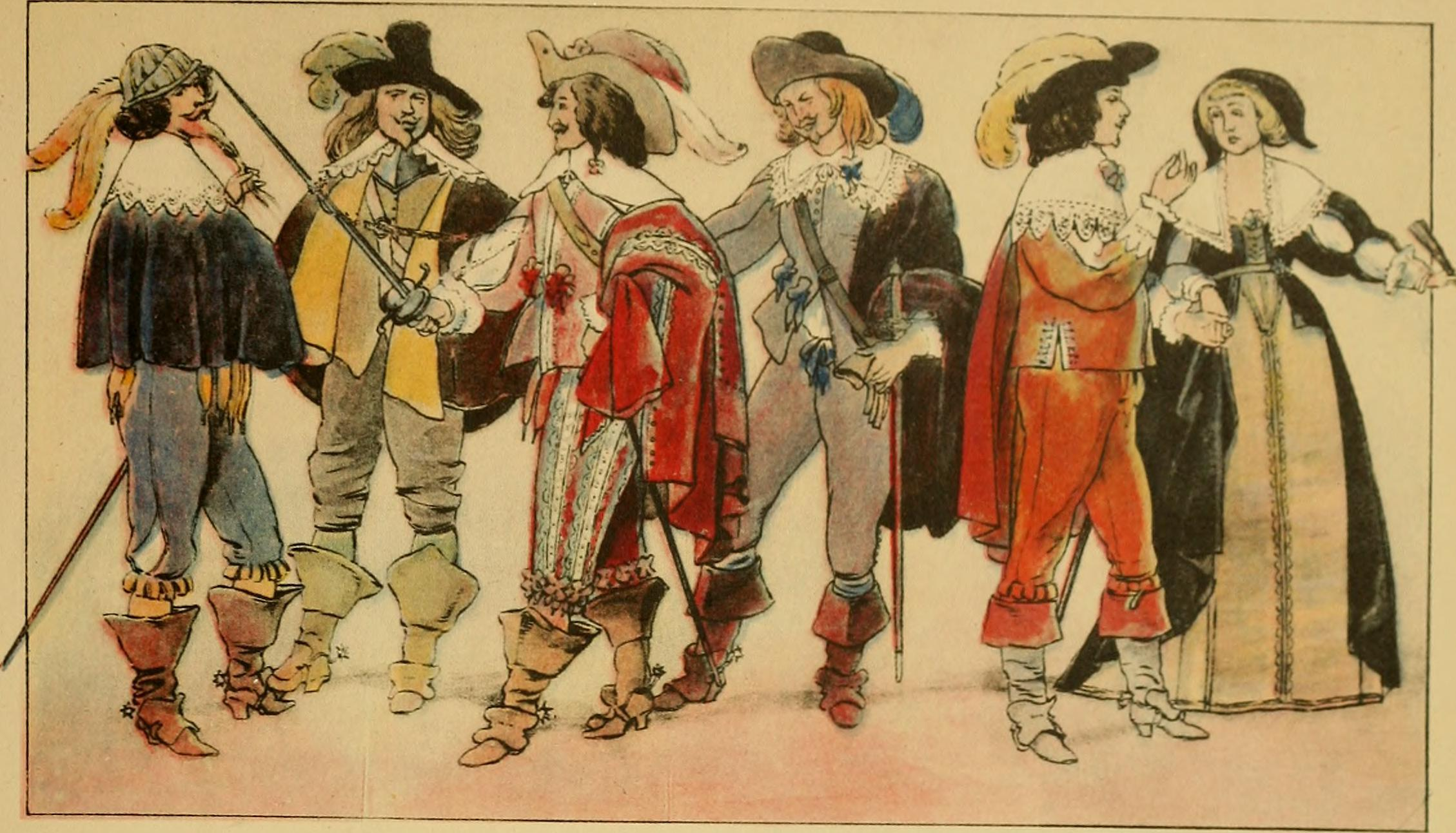 Title: Geschichte des Kostüms Year: 1905 (1900s) Authors: Rosenberg, Adolf, 1850-1906 Heyck, Eduard, 1862-1941 Subjects: Costume Publisher: New York, Weyhe Text Appearing Before Image: ter, spitzenverziert, je nach Standund Stutzerhaftigkeit. Das Haar flattert regellos, der Bart wird im Durchschnittkleiner, als der ,,Wallensteiner in Deutschland, getragen, ein nur noch zum künftigenSchwinden bestimmtes Bärtchen an Ober- und Unterlippe. Man nennt es ohne jedePorträtberechtigung „Henri IV., ein rechtes Beispiel für die Oberflächlichkeit, womitder Modejargon seine Ausdrücke aufgreift, und für die Unkritik, womit sie dasPublikum sich aneignet. Heinrich IV. trug einen, kräftigen, halblangen Vollbart. Fig. I. Gentilhomme, i63o. Fig. 2. Ebenso, i635. Fig. 3 und 4. Ebenso, i635 bis 1640. — Dumas drei Mousquetaires mögenwir uns in diesen Trachten vorstellen, ohne sonst die Erzählung kulturgeschichtlichfür zuverlässig zu nehmen. Fig. FigFigFigFigFig 5 und 6. Herr und Dame im Kostüm für den Ausgang.7. Pfeifer, i635. 8. Gentilhomme, i635. g. Musketier, 1647. 10. Feldschmied, 1647. 11. Seiler, 1647. Nach Kupferstichen Abraham Bosses (geb. (6o5, gest. 1678). 172 Text Appearing After Image: '